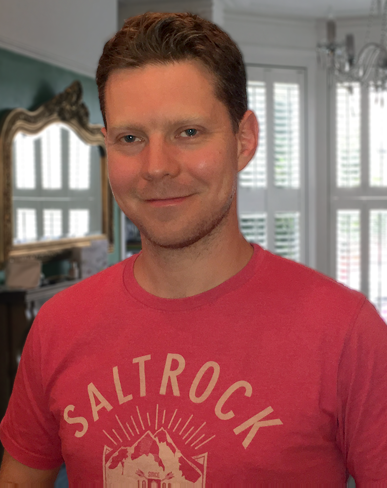 Headshot of Sam Barlow, video game director